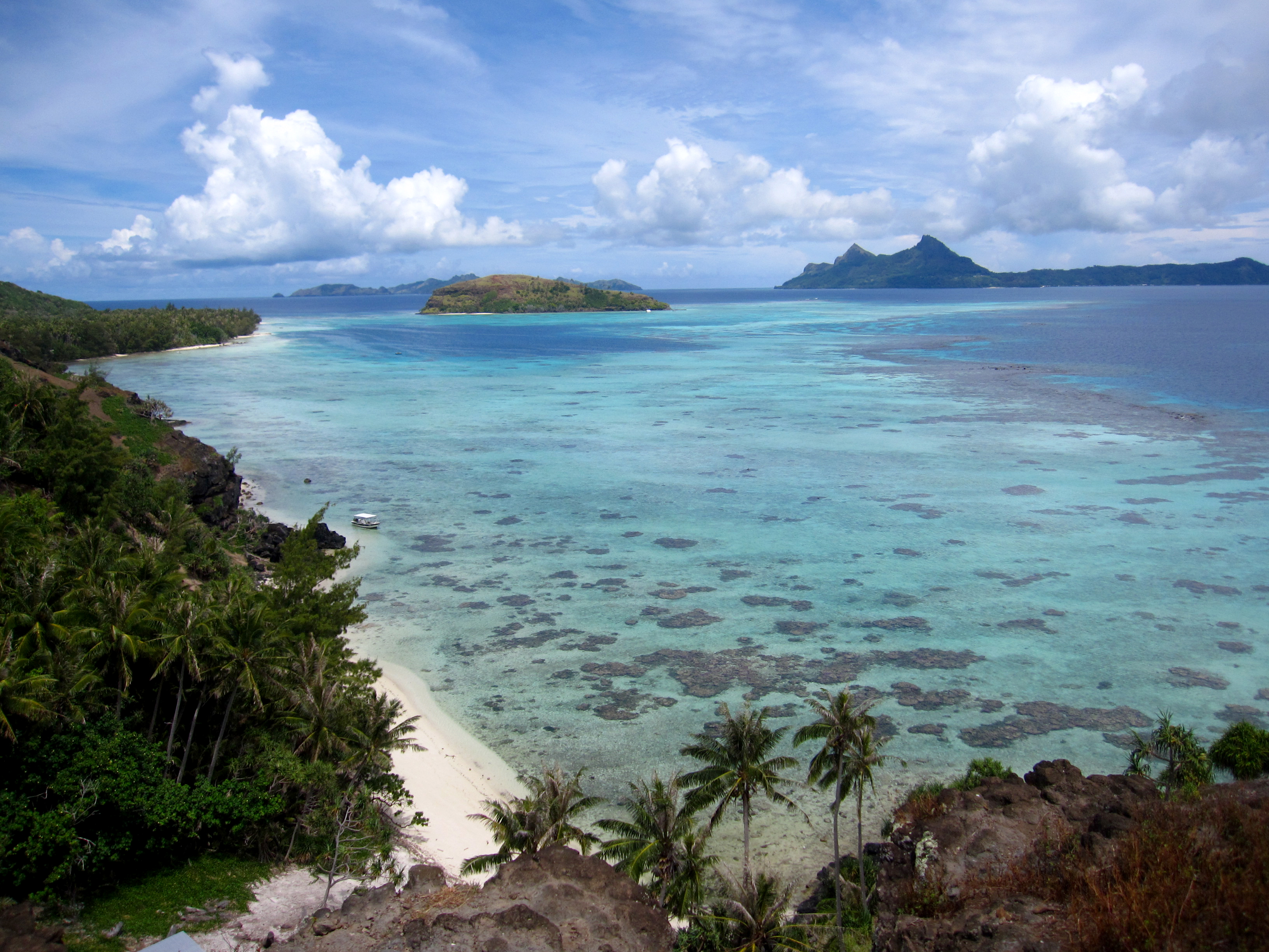 View on Mangareva island from Akamaru island on January 2 2014.